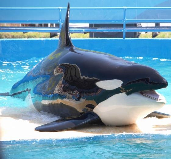 Orca in Miami Seaquarium.